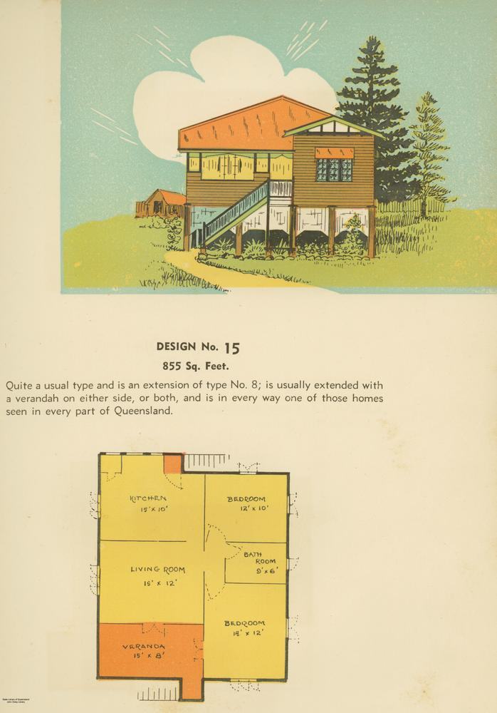 Home Building Publishing Company home, Design No. 15, 1939 Floor plan and drawing of the front elevation of Home Building Publishing Company home, Design No. 15. The front entrance to this small, two-bedroom house of 855 sqaure feet is via stairs to the verandah and directly into the living room. The text reads: Quite a usual type and is an extension of type No. 8; is usually extended with a verandah on either side or both, and is in every way one of those homes seen in every part of Queensland.